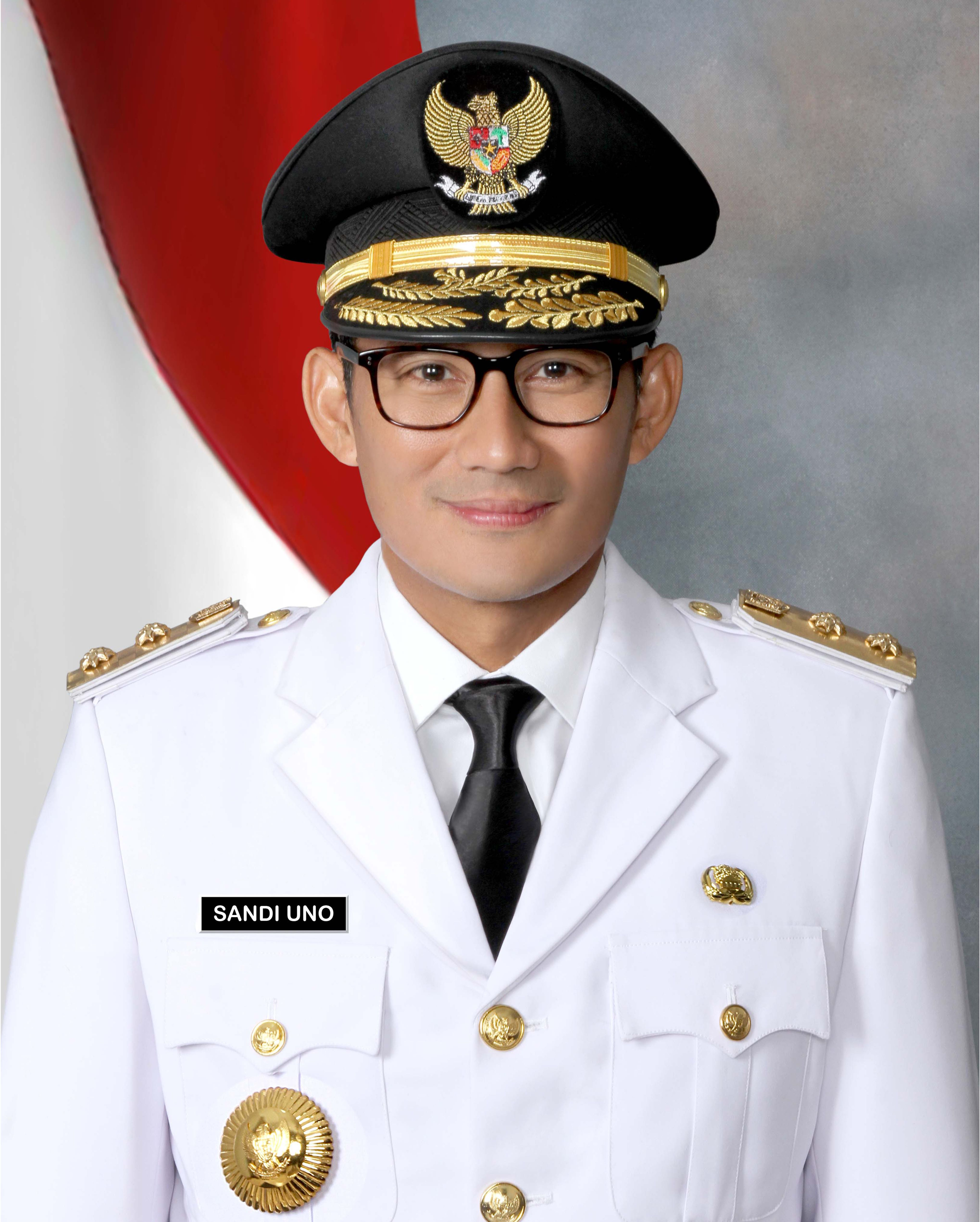 Official Portrait of Sandiaga Uno as Vice Governor of Jakarta Special Region